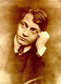 Endre Ady, hungarian writer.